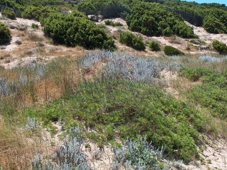 La Caletta beach, in the Sardinian Island of Carloforte